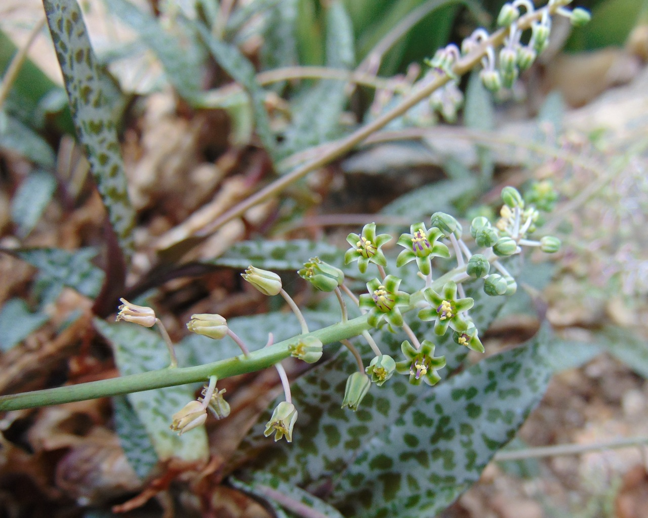 Ledebouria socialisPlease respect author's moral rights by not changing this description or the image title.